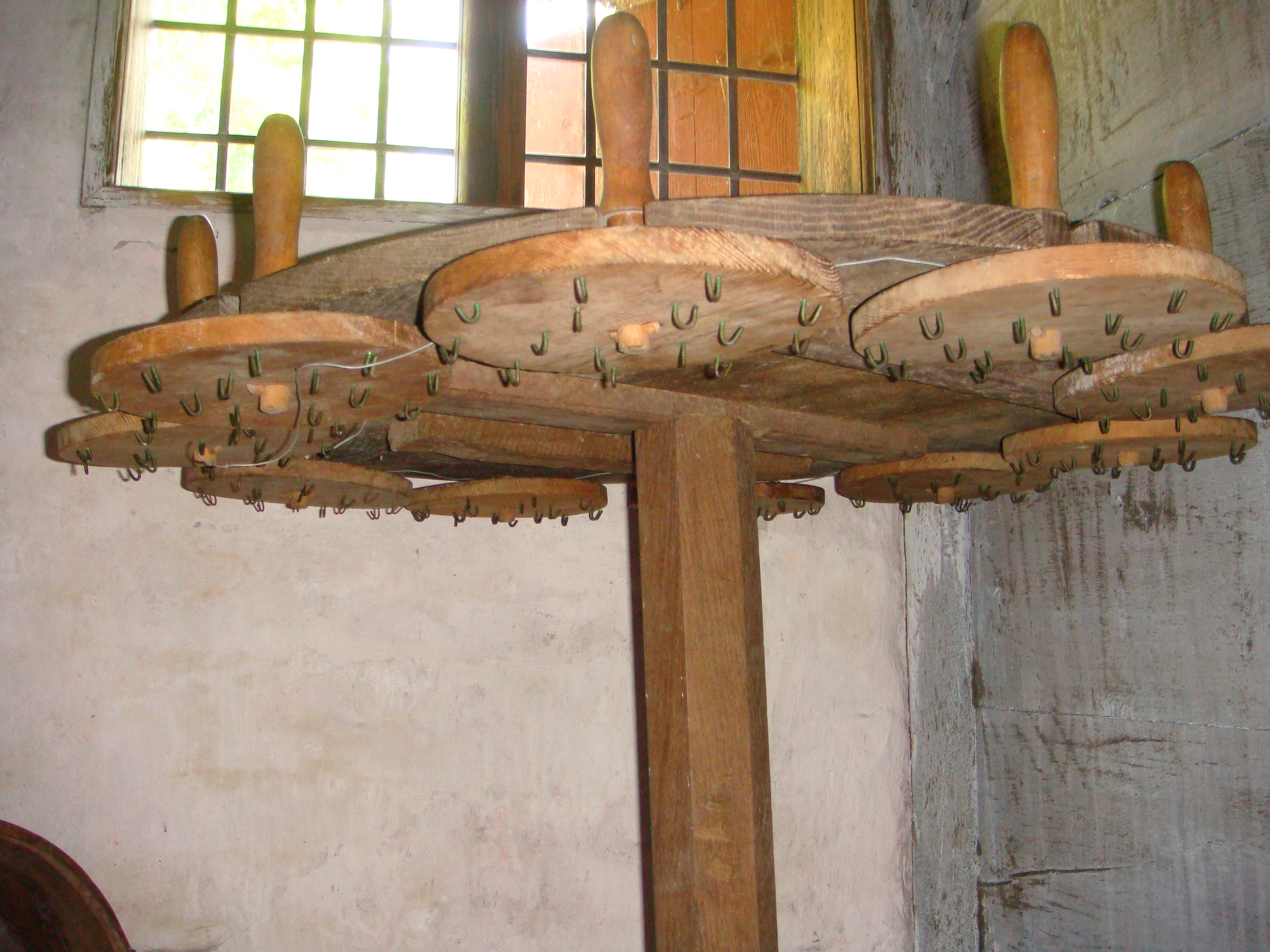 Rack with removable sections for creating candles. The candlewicks hung from the hooks on the underside of the round removable forms. Farm from Barsø at the Open-Air Museum.